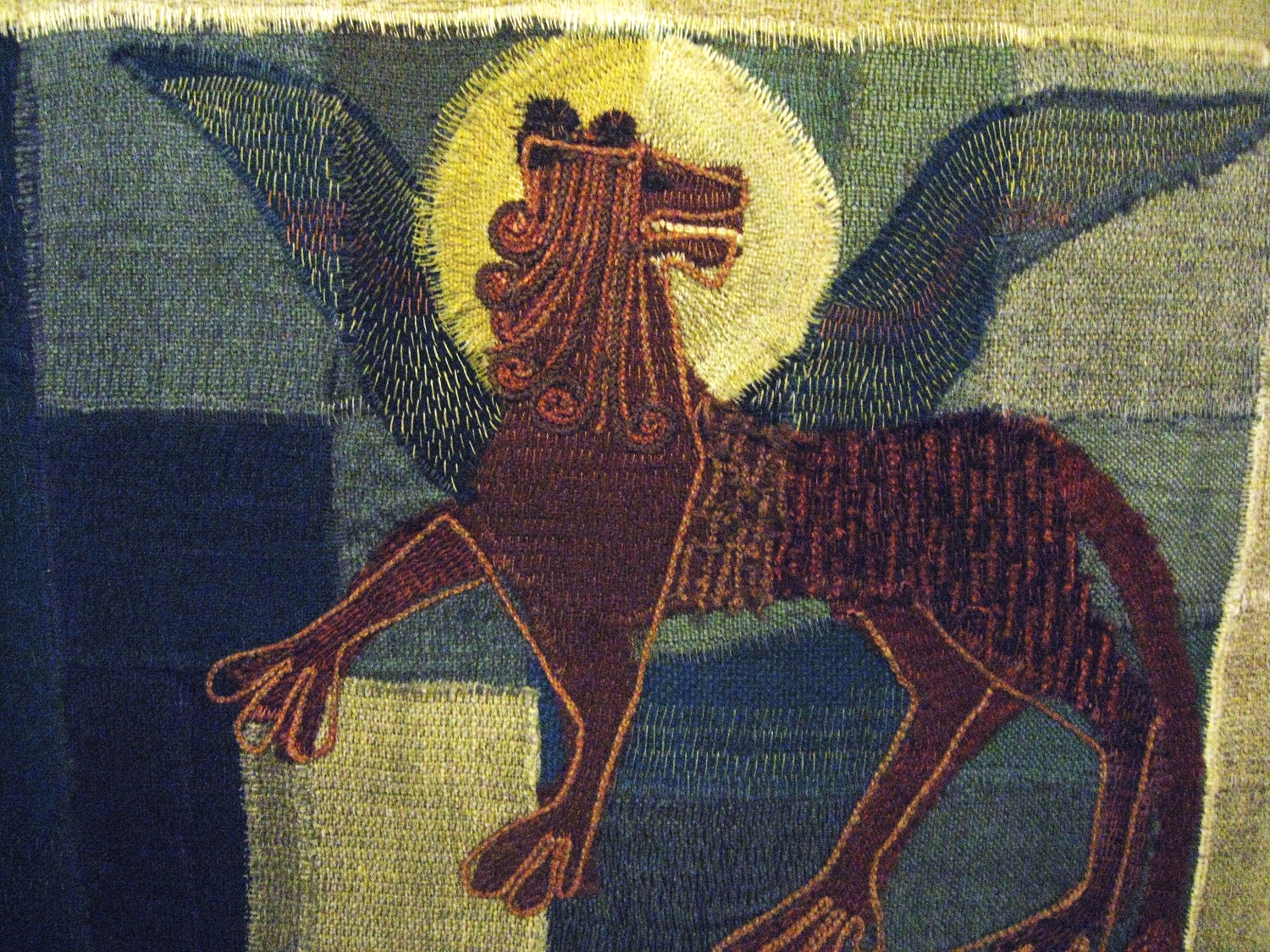 "Apostels", detail with lion of Mark. Wall hanging by Ruth von Fischer.